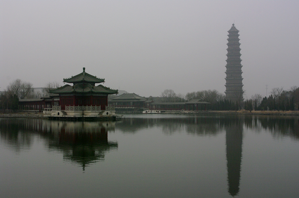 images taken at Tie Ta(Iron tower) Park,Kaifeng,Henan,PRC